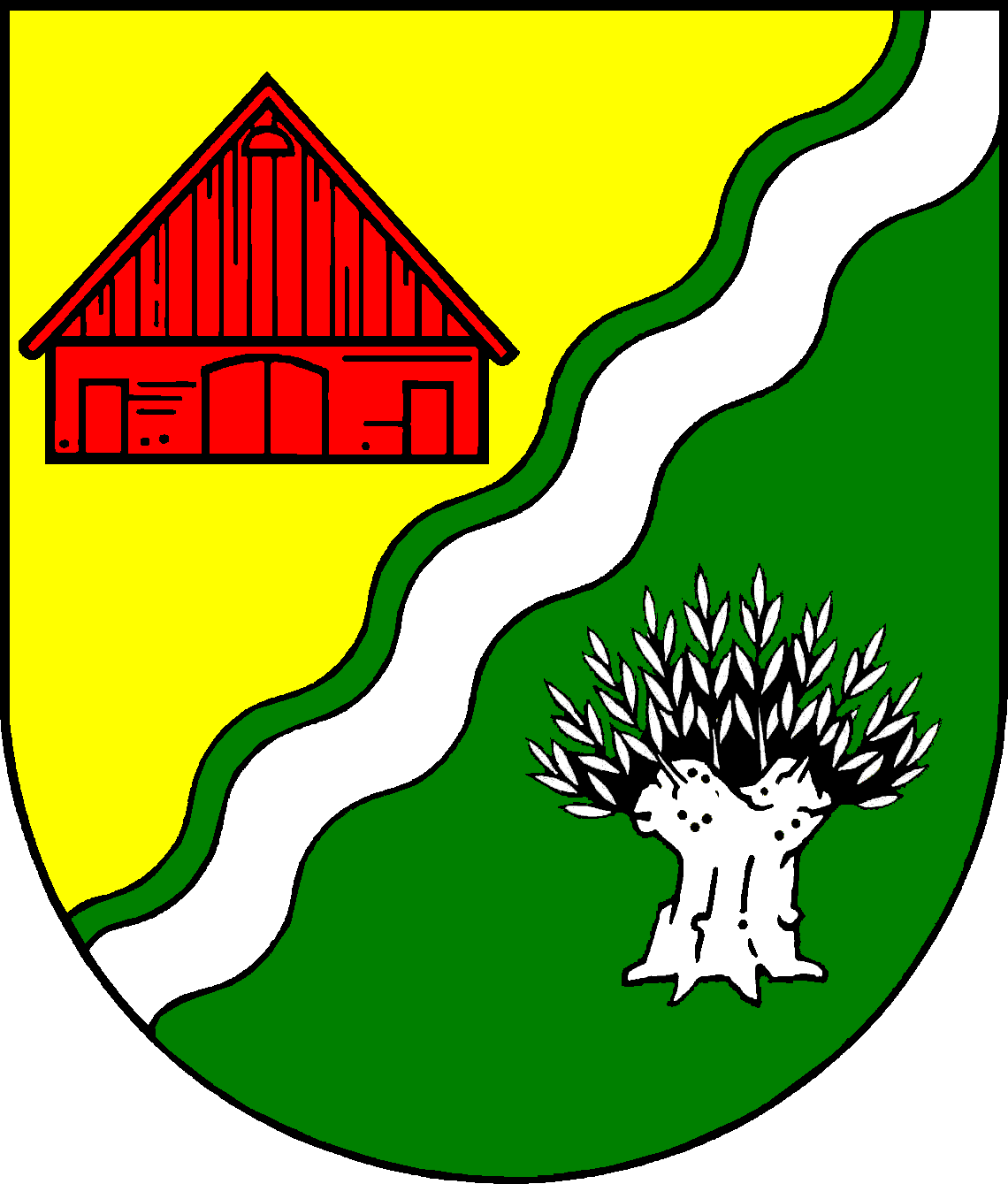 Coat of arms of the municipality Neuendeich in Schleswig-Holstein, Germany.